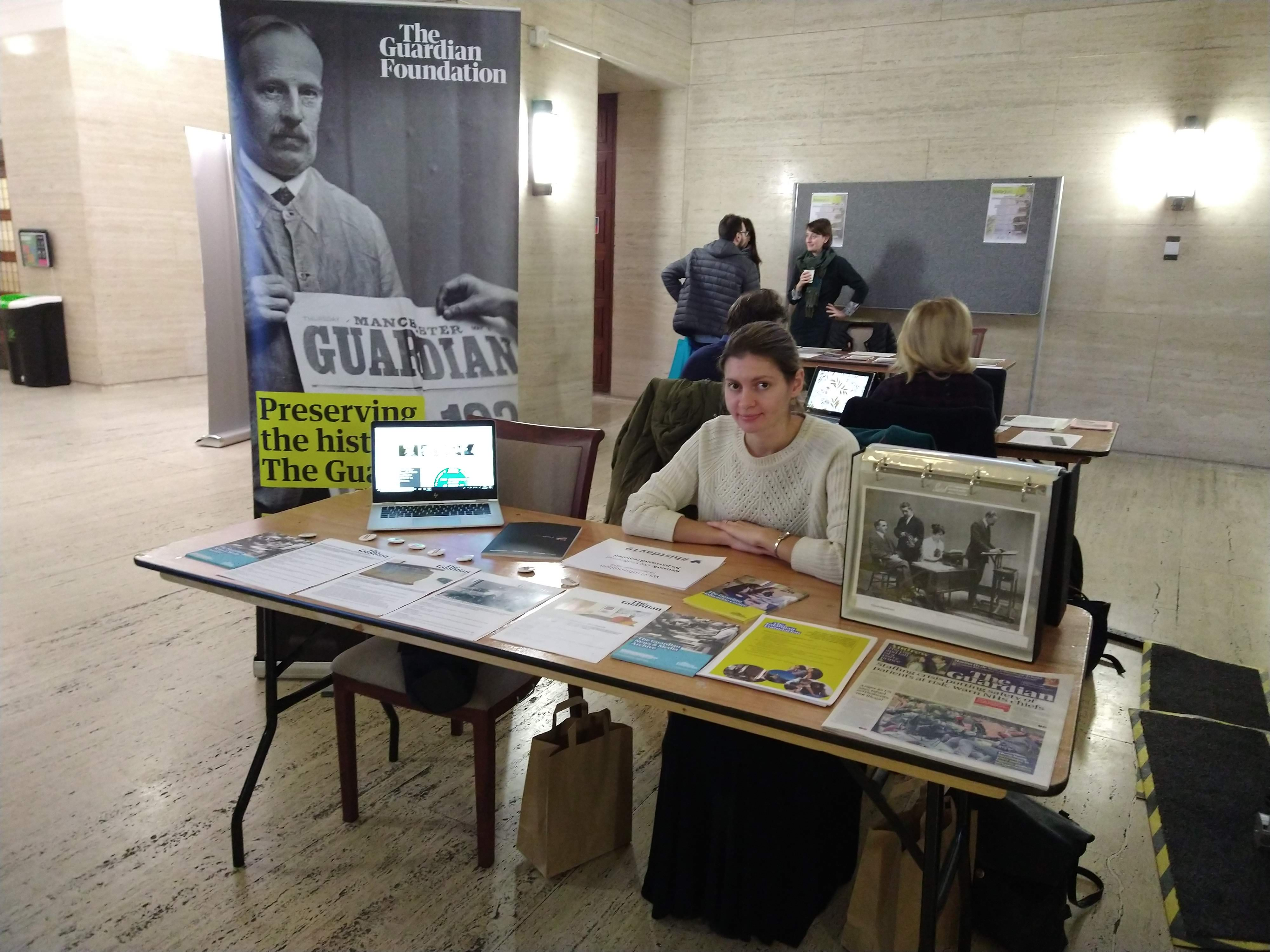 University of London School of Advanced Study History Day 2019